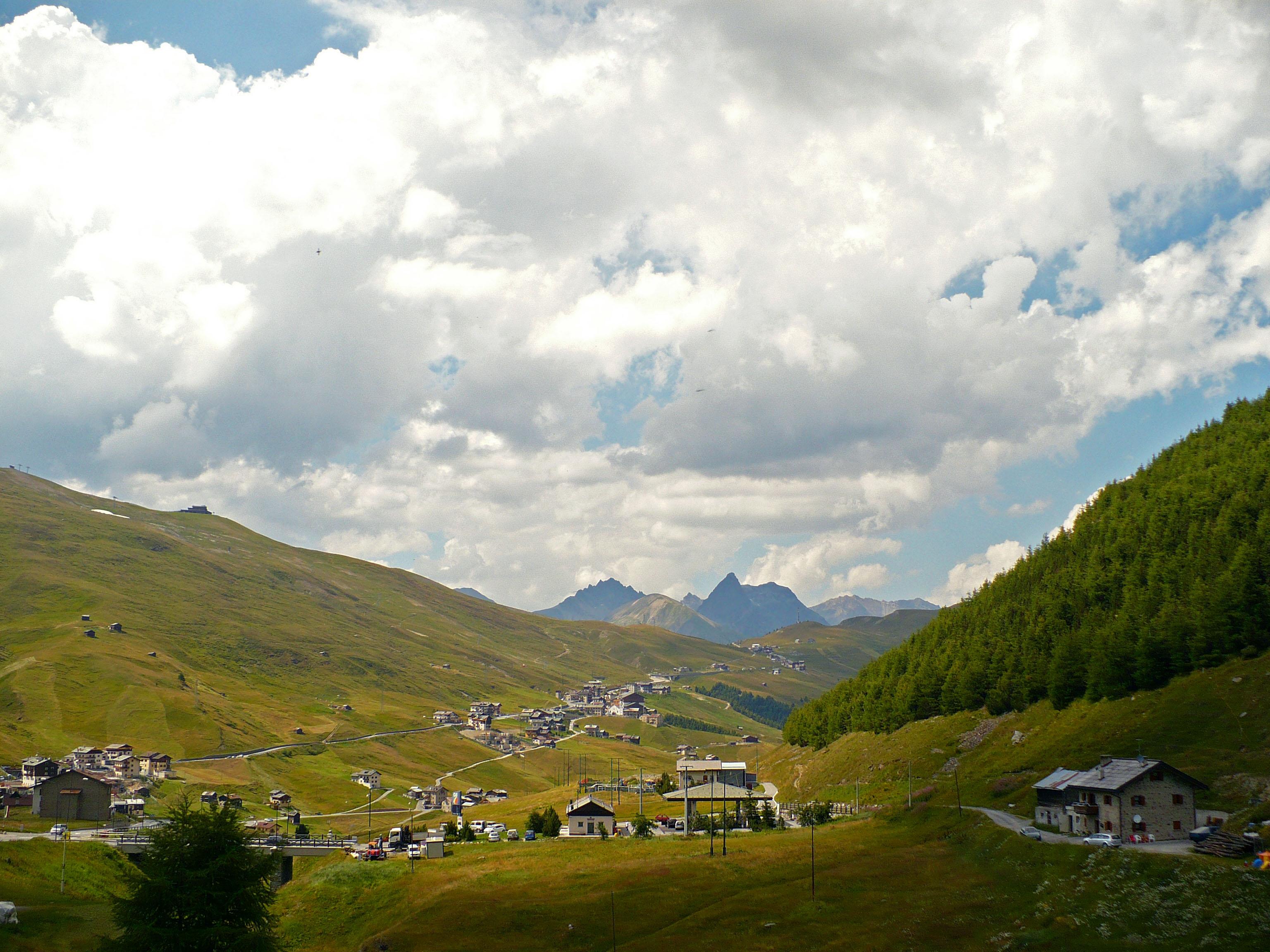 Trepalle and Eira Pass seen from the road to Foscagno Pass